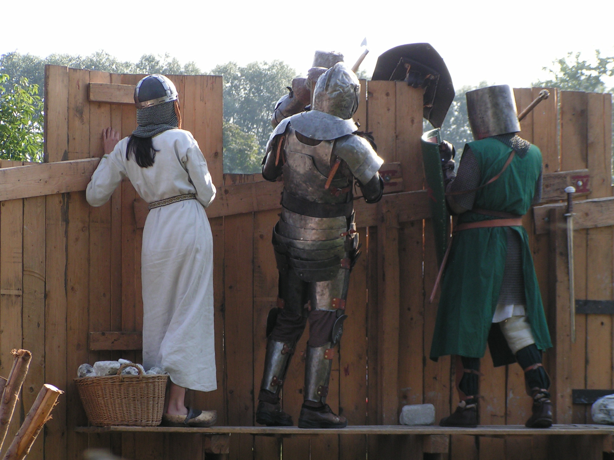 Reenactors conquer a castle during Vechta's "Burgmann Days" in 2006.